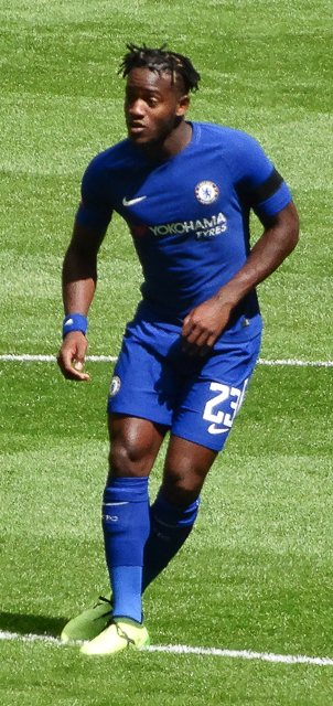 Community Shield at Wembley 6.8.17